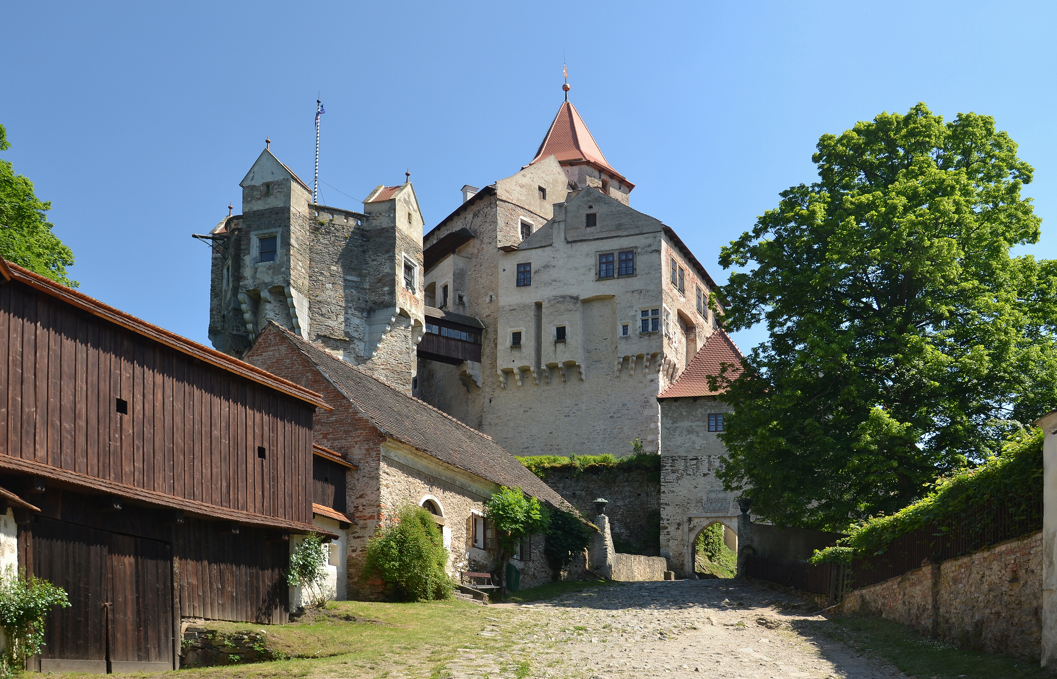 Pernštejn (Pernstein), Moravia